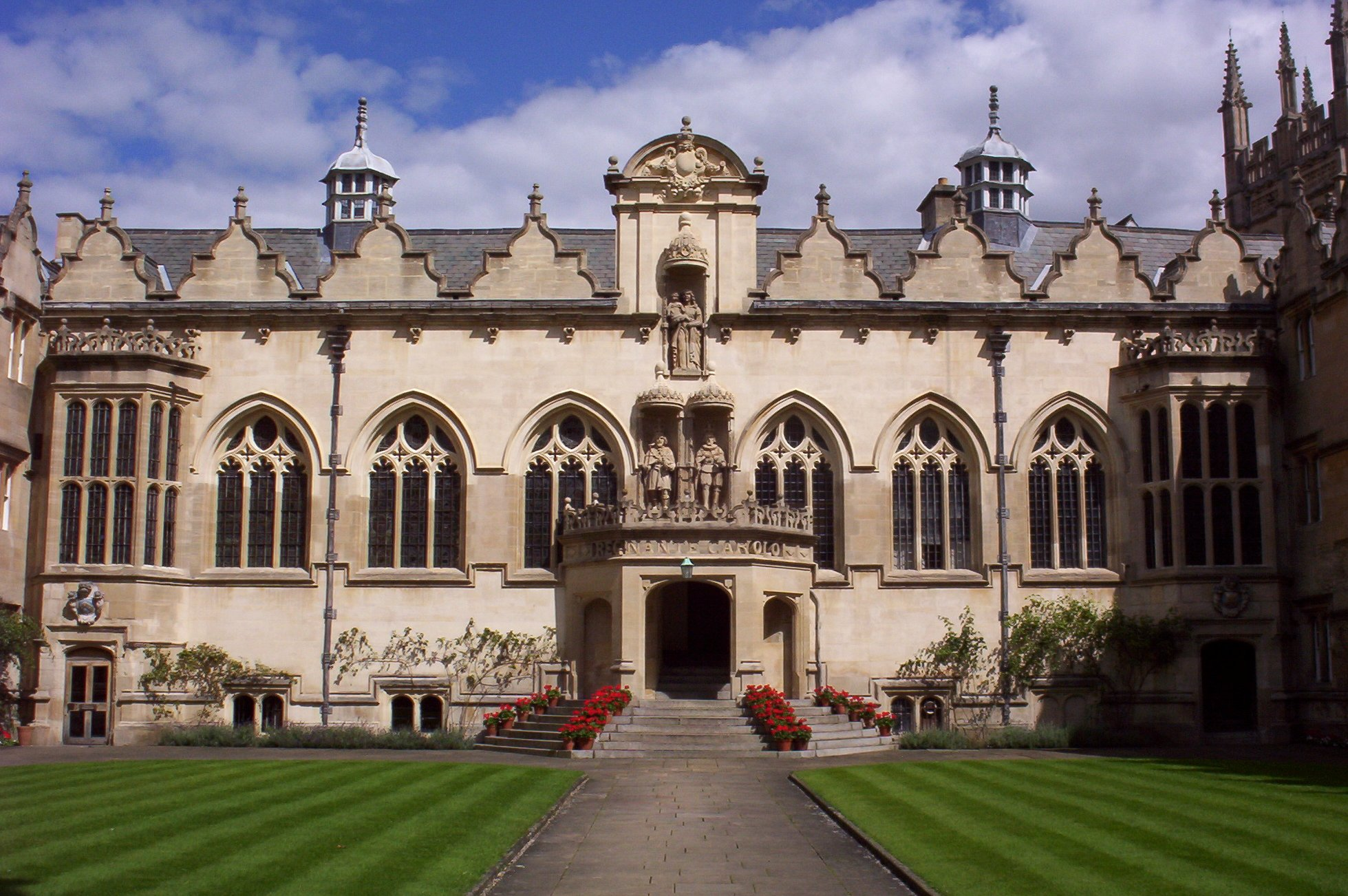 Photograph of Oriel College, Frist quad.